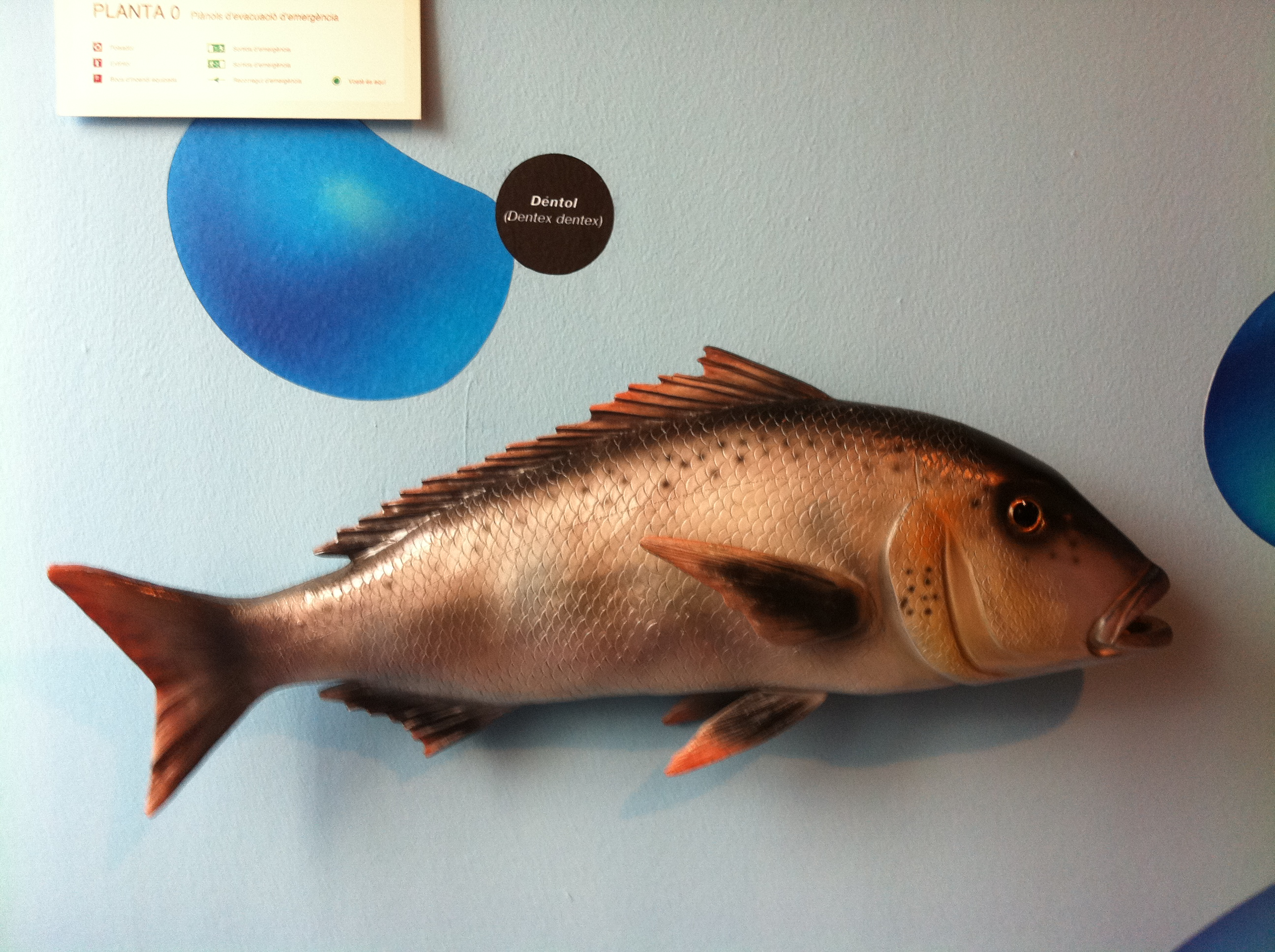 Exhibit about the Medes Islands at Museu de la Mediterrània, Torroella de Montgrí, Catalonia